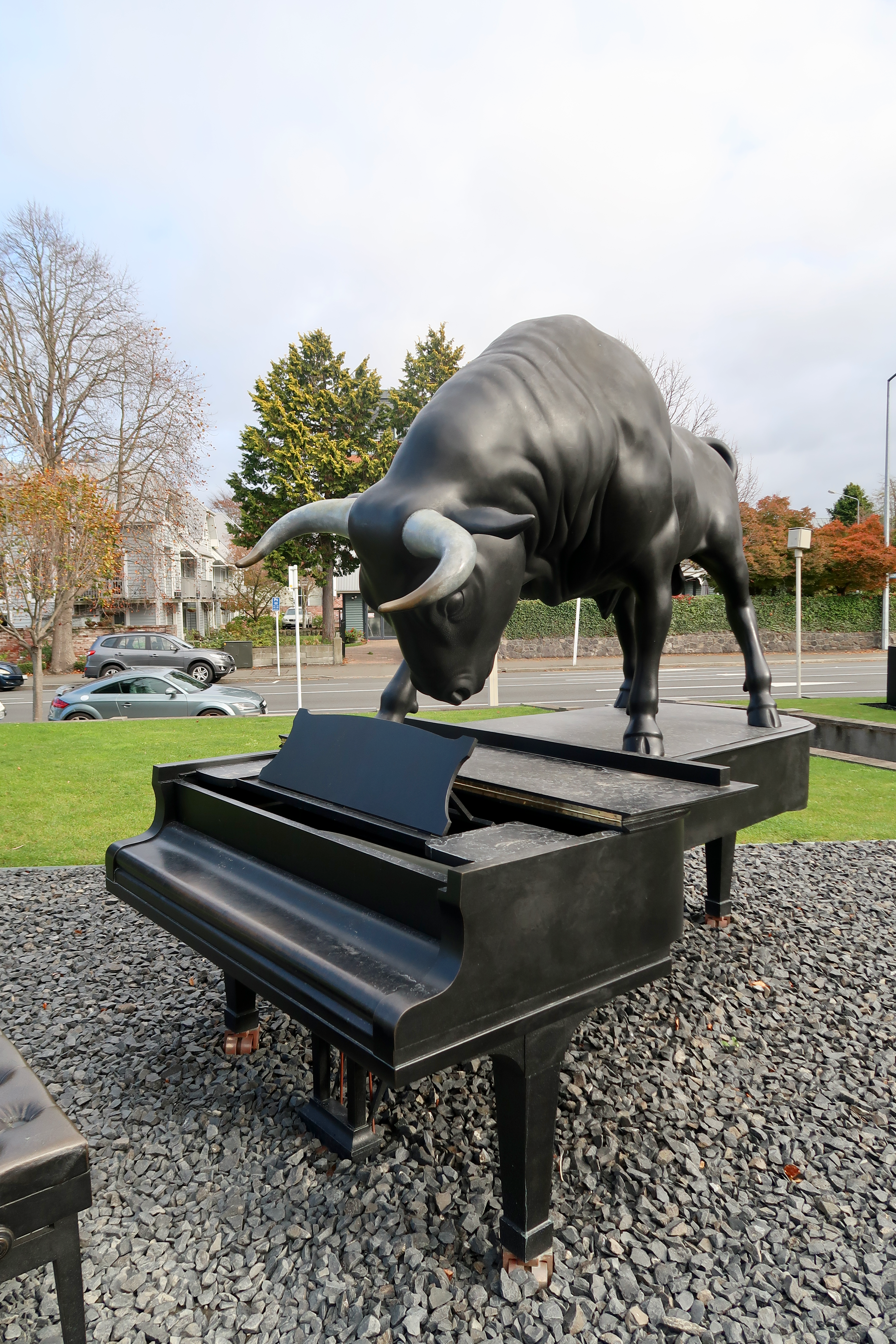 Michael Parekowhai's 2011 sculpture "Chapman's Homer", part of an ensemble exhibited at the Venice Biennale, subsequently acquired by Christchurch Art Gallery.